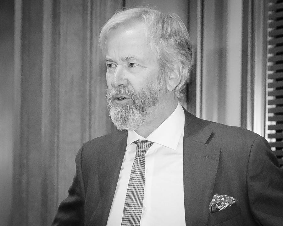 Ole Jacob Sunde at Governor Øystein Olsen's annual address in February 2018